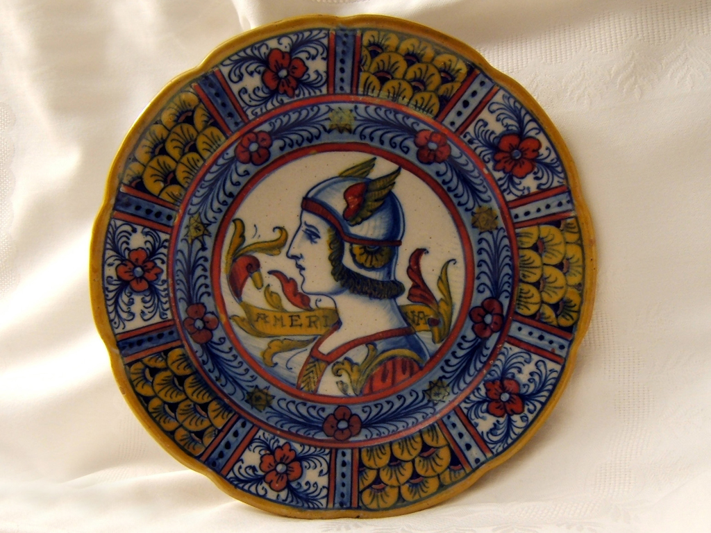 Traditional ceramic dish from Umbria